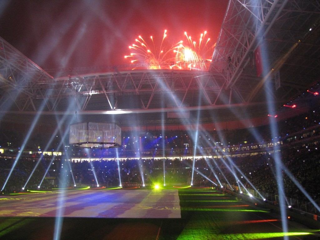 Ali Sami Yen Spor Kompleksi Türk Telekom Arena opening